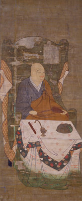 Ninshō, Saidaiji, Nara, Japan